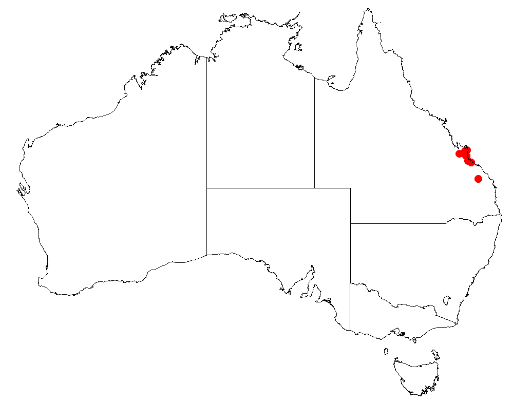 Parsonsia larcomensis Occurrence data for Australia from Australasian Virtual Herbarium downloaded 22 December 2018